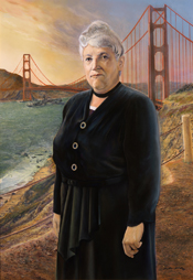 Portrait of former congresswoman Florence Prag Kahn of California.